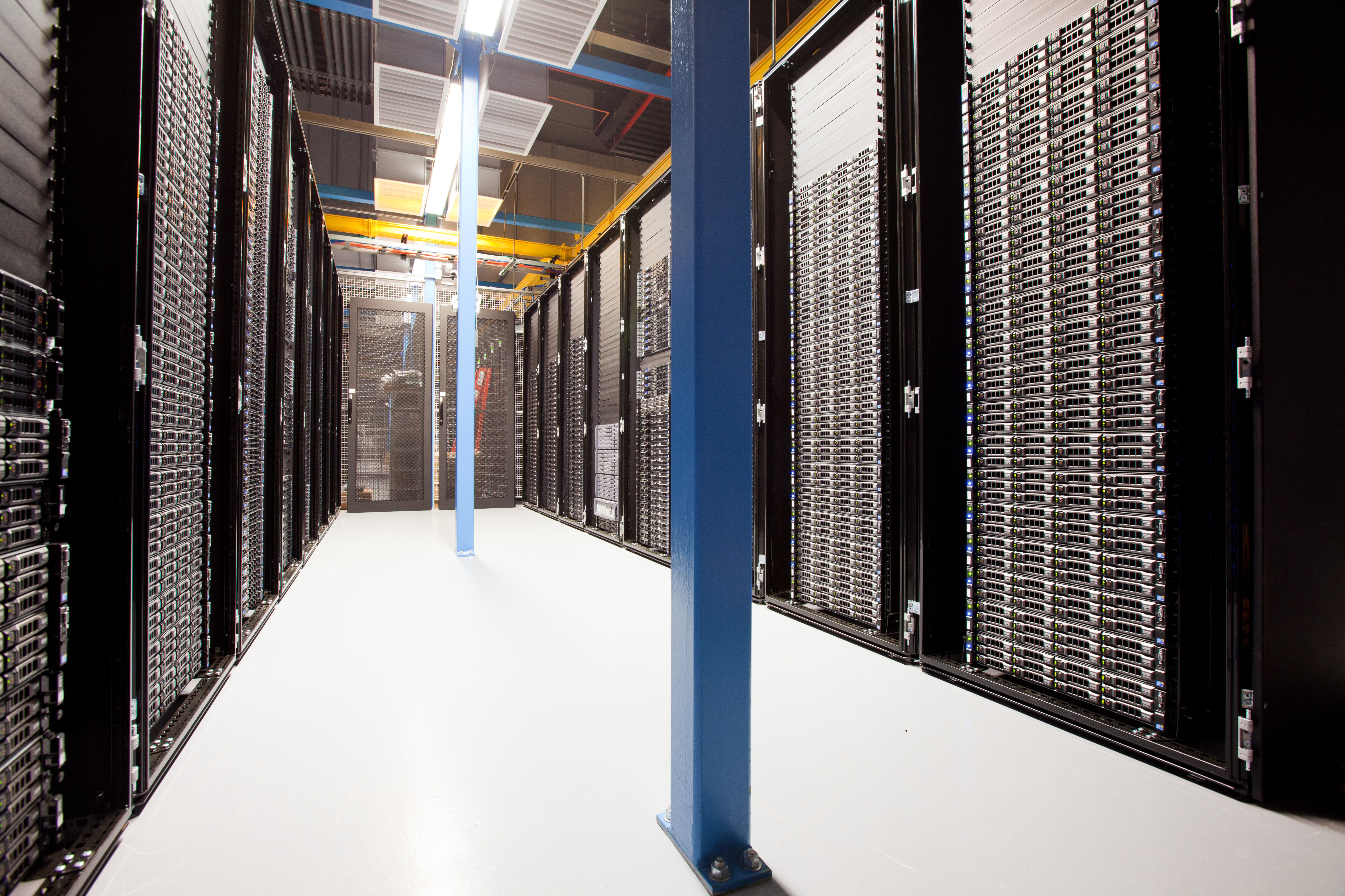 Wikimedia Servers